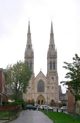 St Peter's Cathedral, Belfast seen from Albert Street. Consecrated in 1866 this is the cathedral church of the Roman Catholic Diocese of Down and Connor.